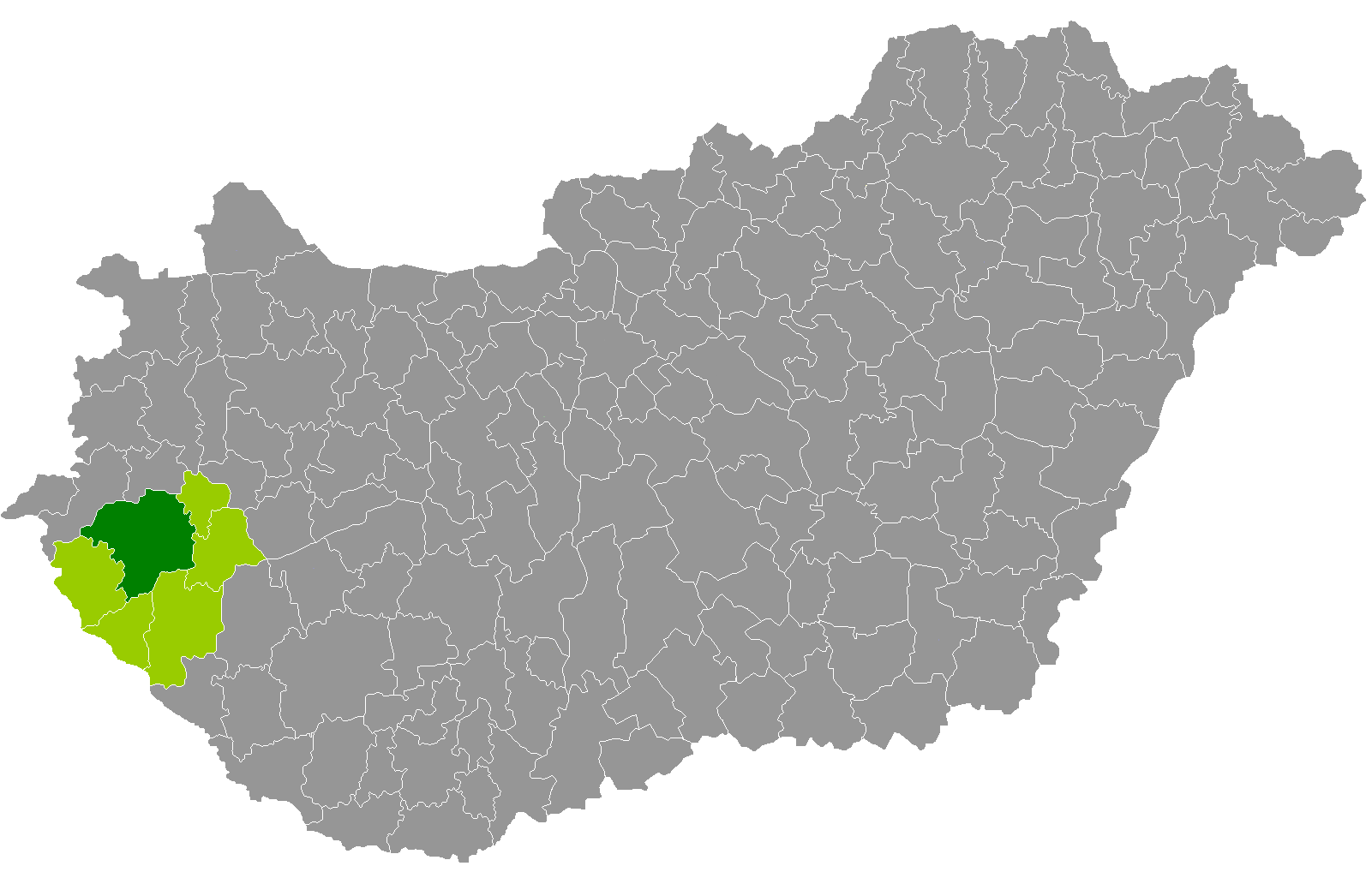 Location of Zalaegerszeg District, Zala, Hungary